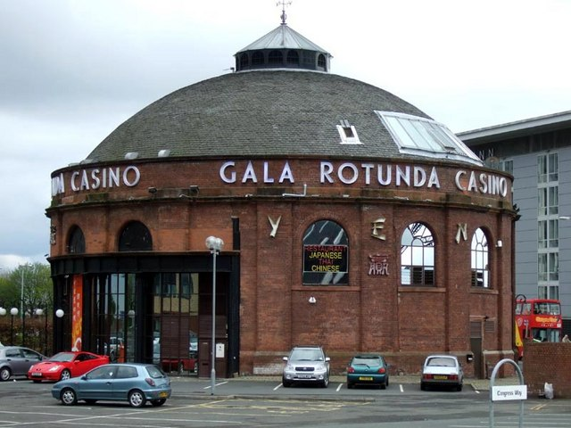 Northern Rotunda